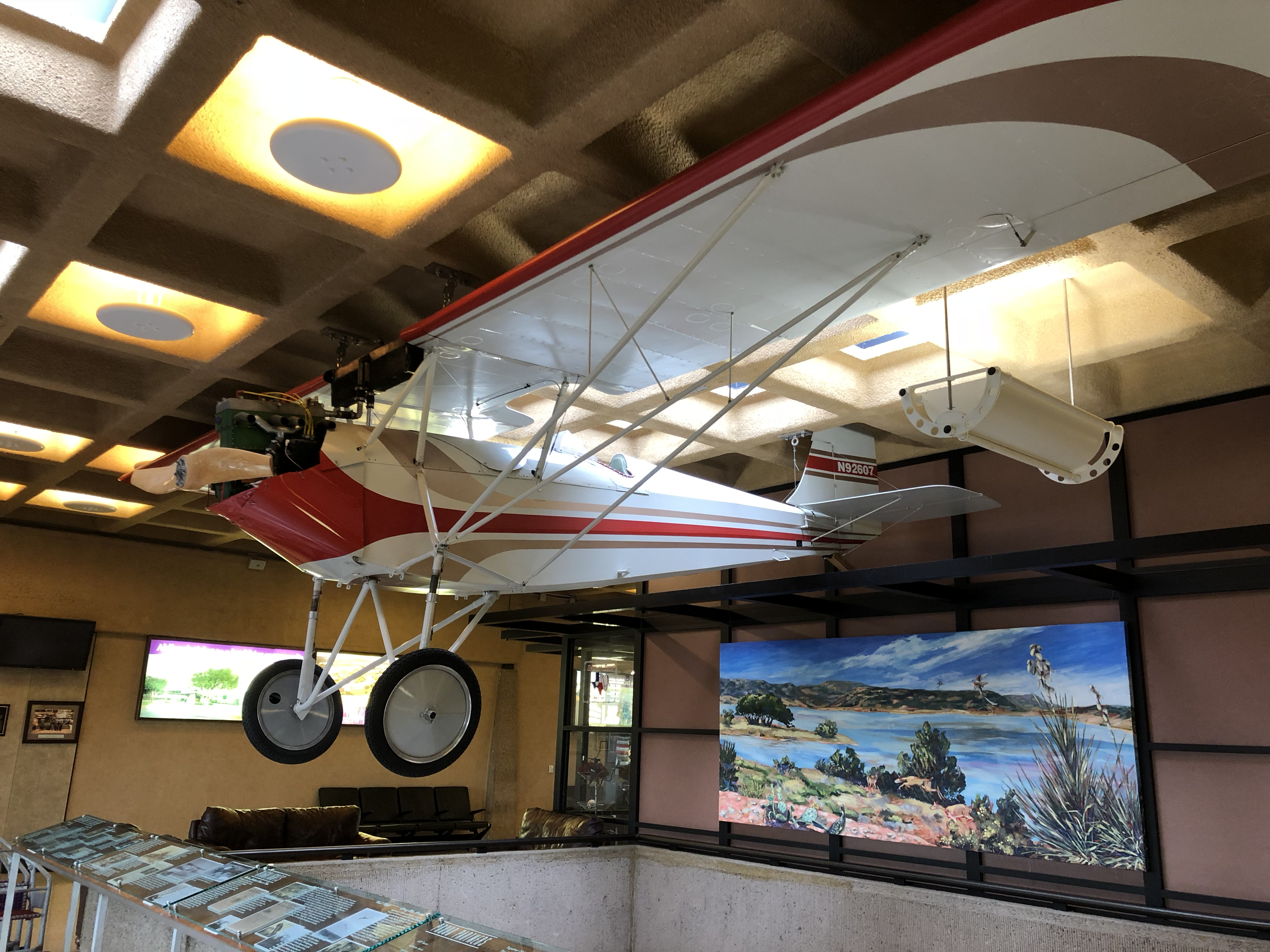 Photo of an Alder Derryberry Model A on display at the Abilene Regional Airport (Abilene, Texas)